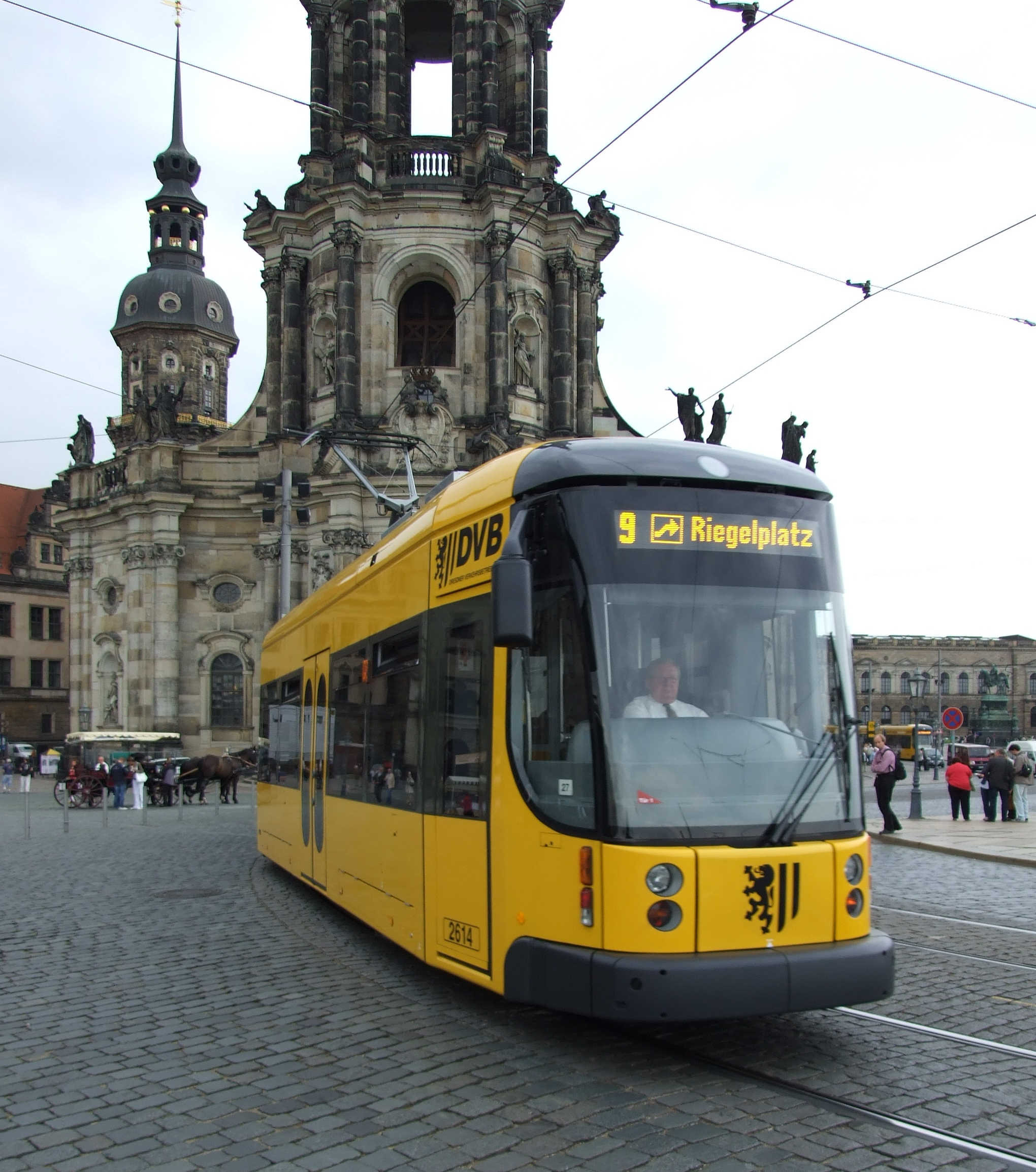 Dresden trams, Germanyhelp